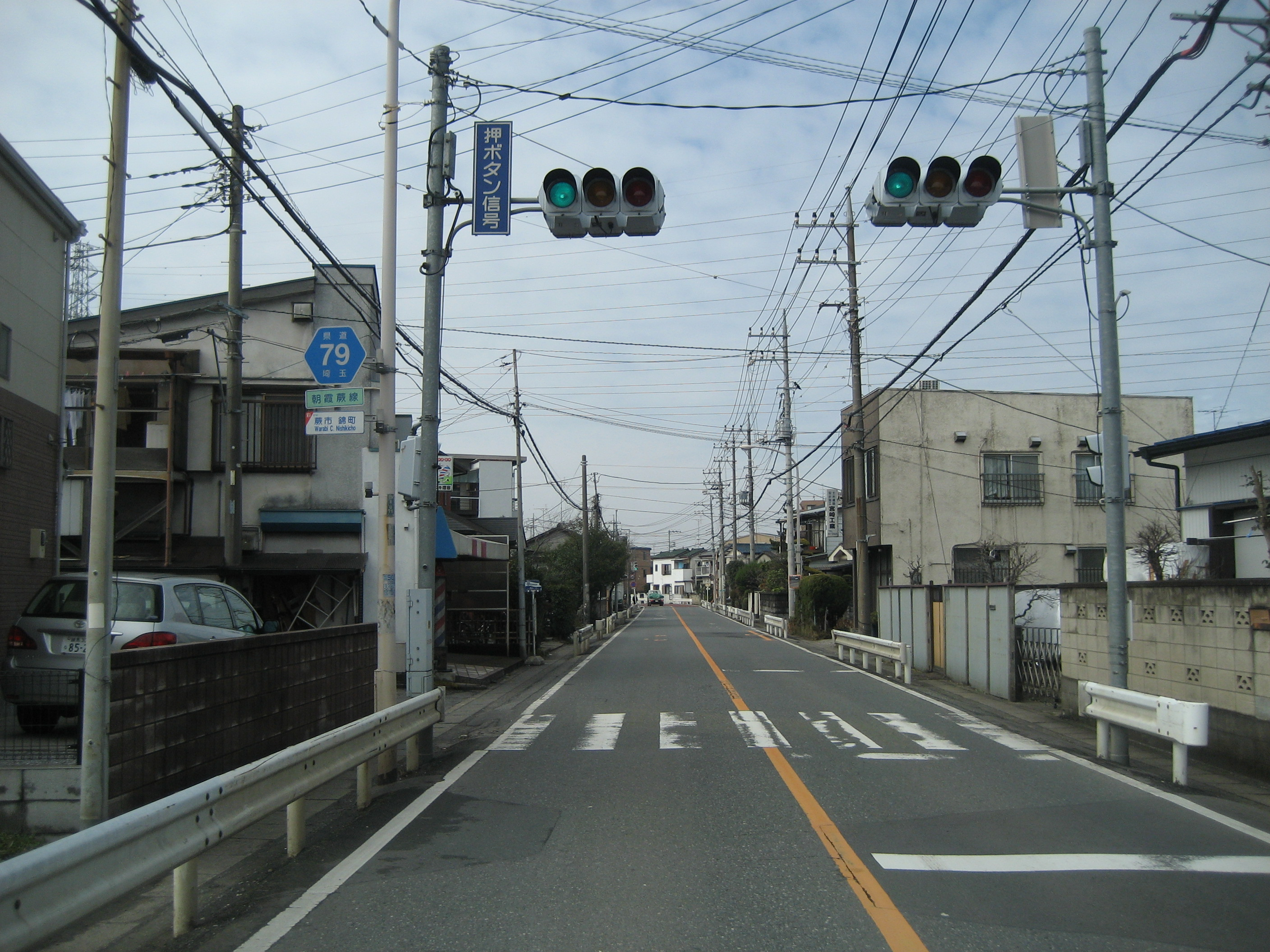 The Saitama Prefectural Road Route 79 in Warabi City